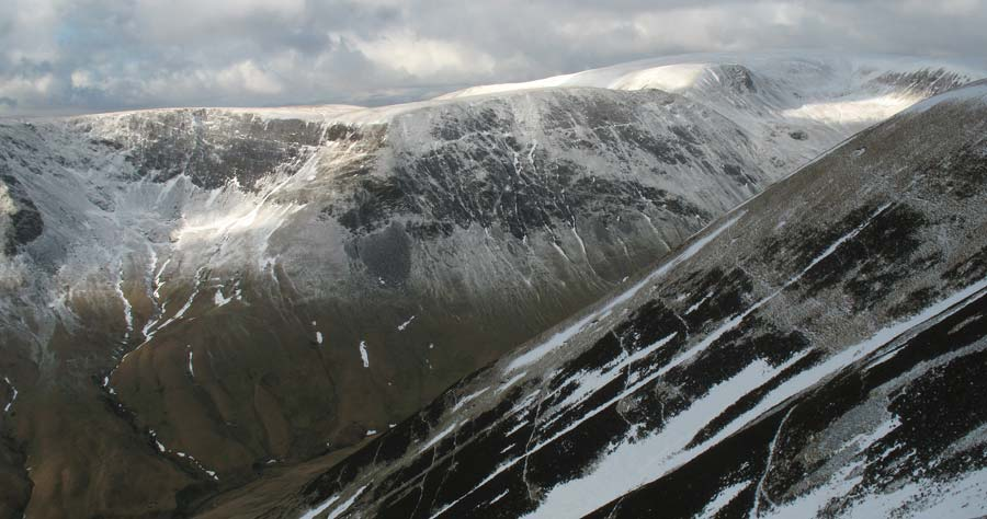 View of Hartfell in the Moffat hills from Saddle Yoke